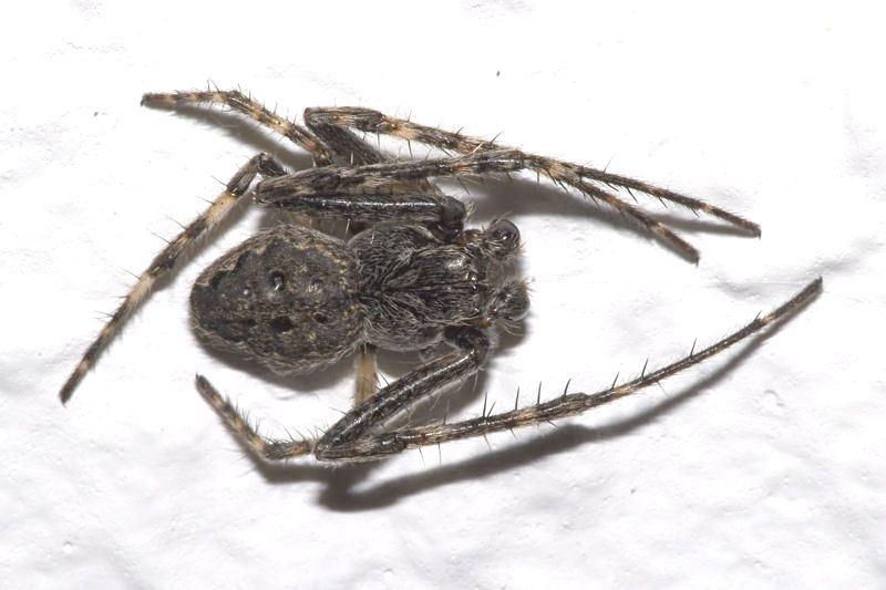 Walnut Orb-Weaver Spider